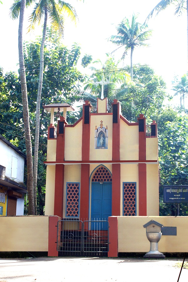 St Sebastian Chappel at Thuruthimukk, Vayala